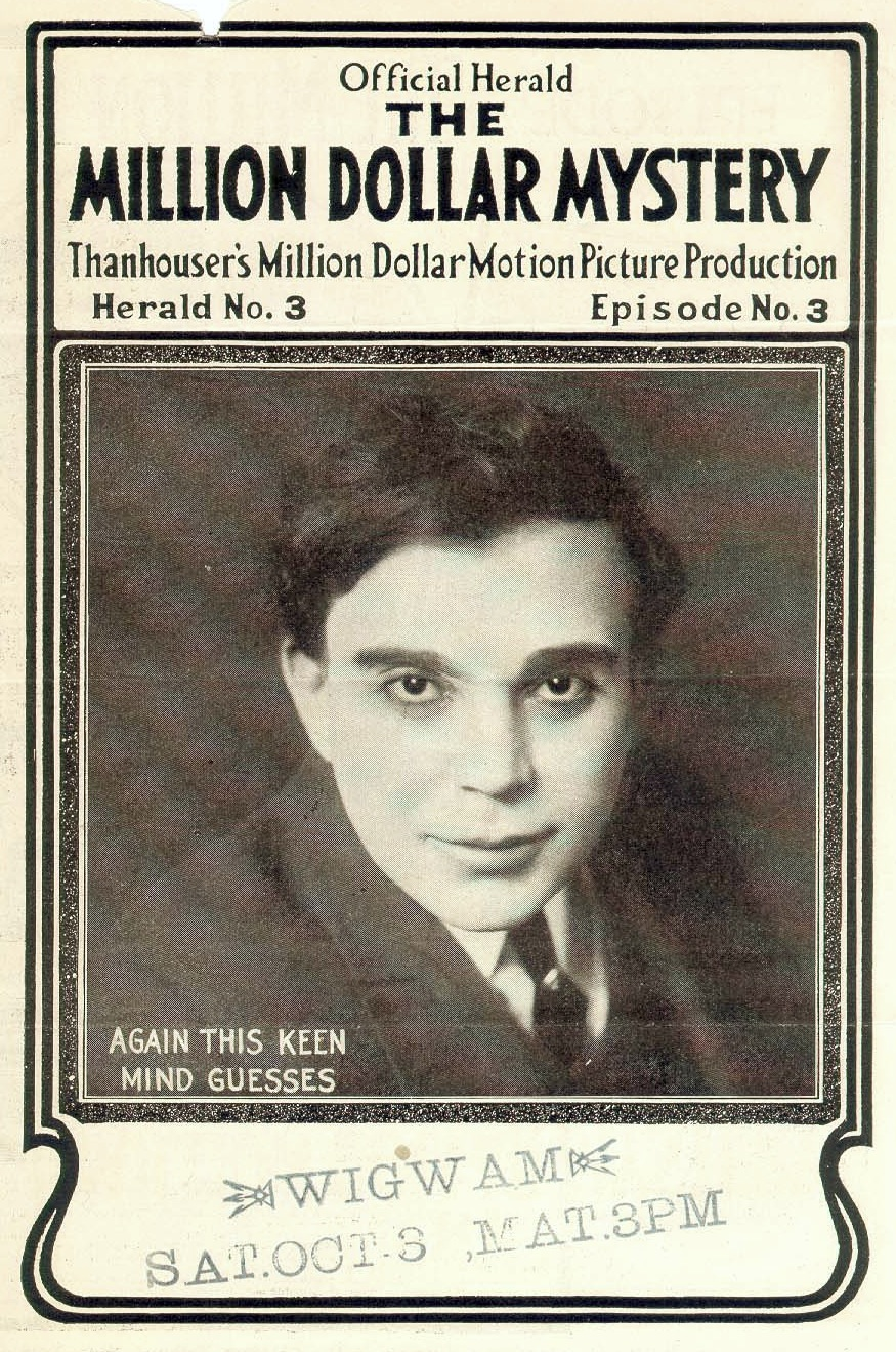 The Million Dollar Mystery (1914) is a twenty three chapter film serial. This is a brochure for episode three.